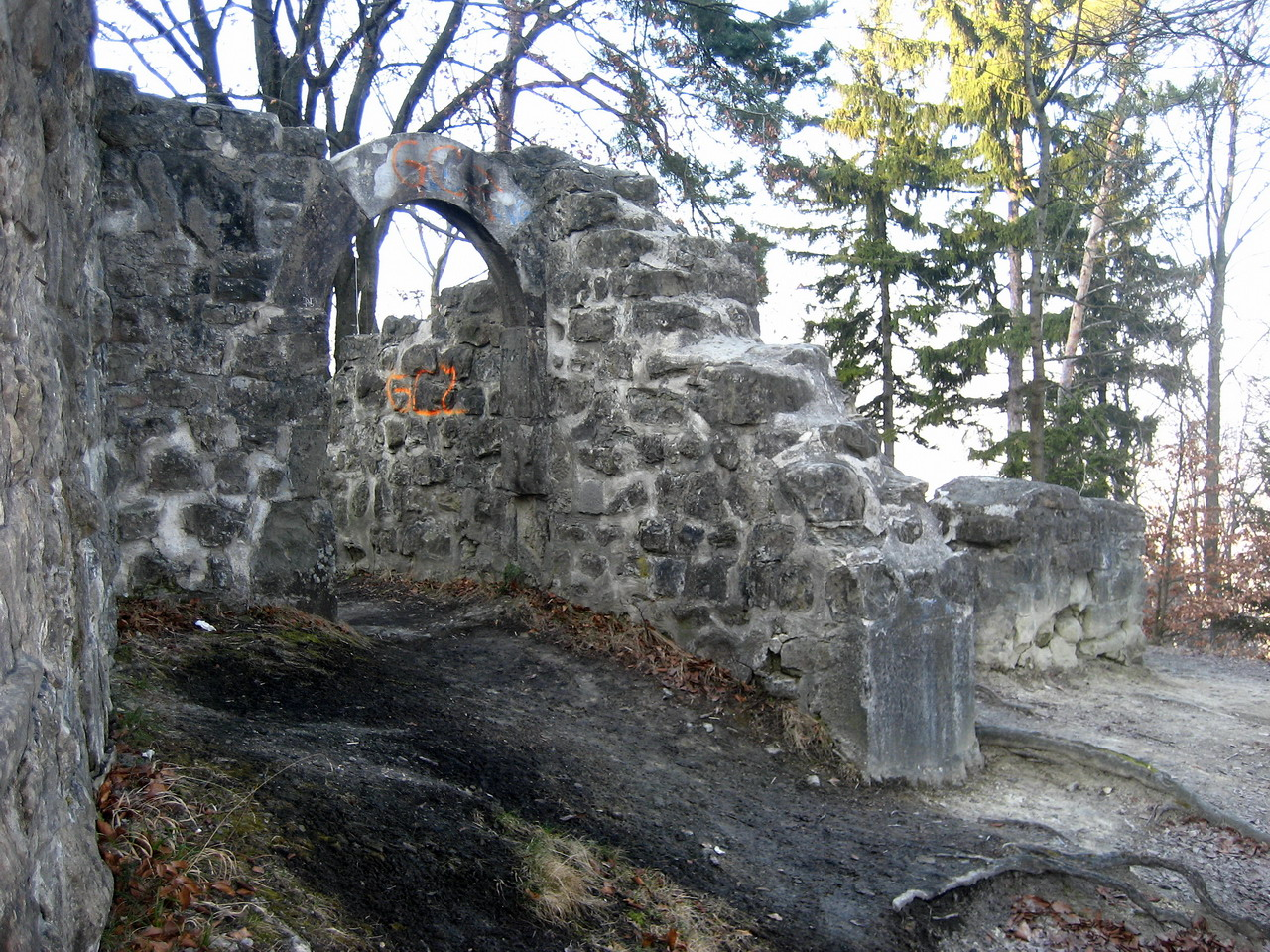 Zürich - Uetliberg : Friesenberg castle, Porticus.